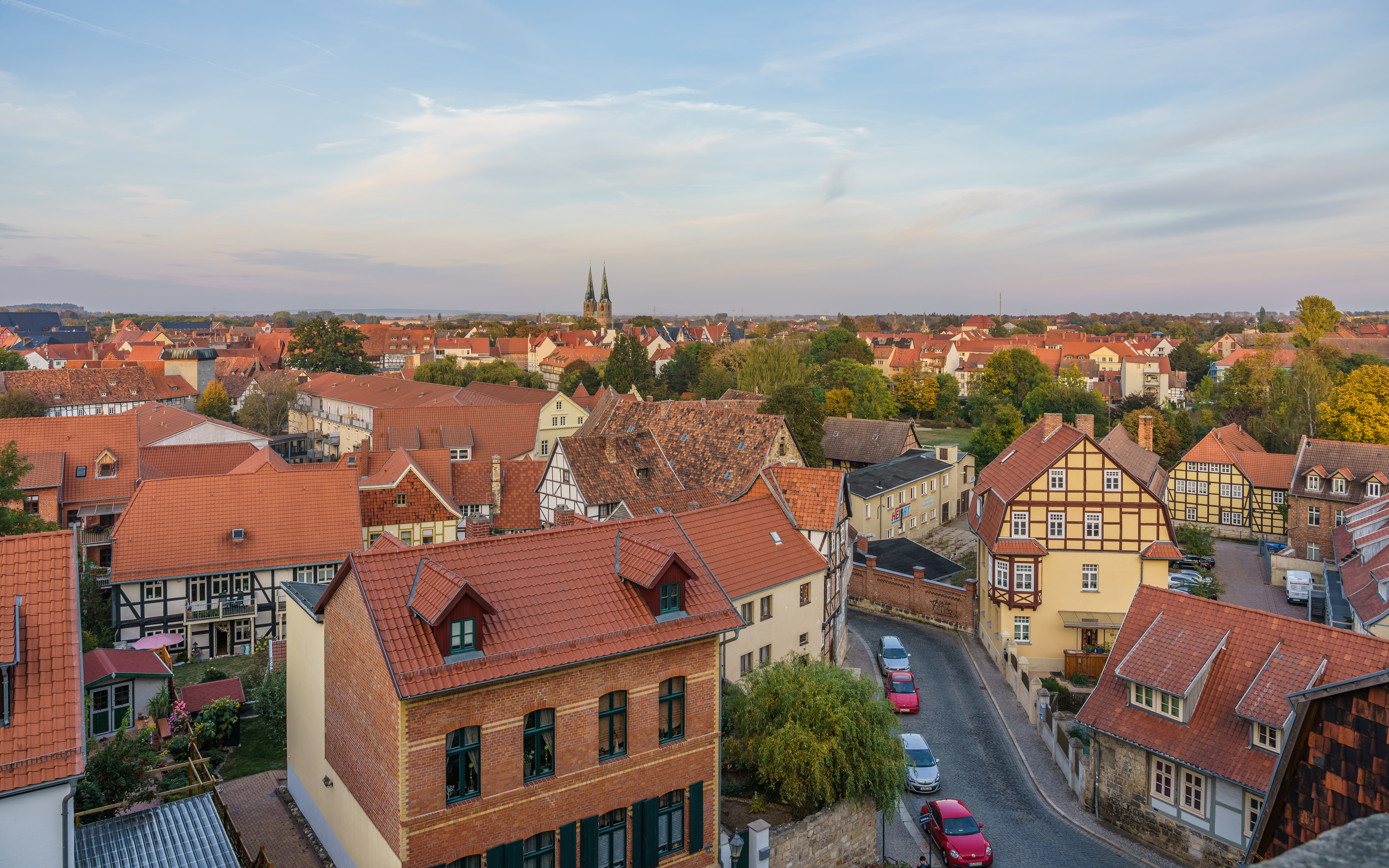 Old Town in Quedlinburg, Germany